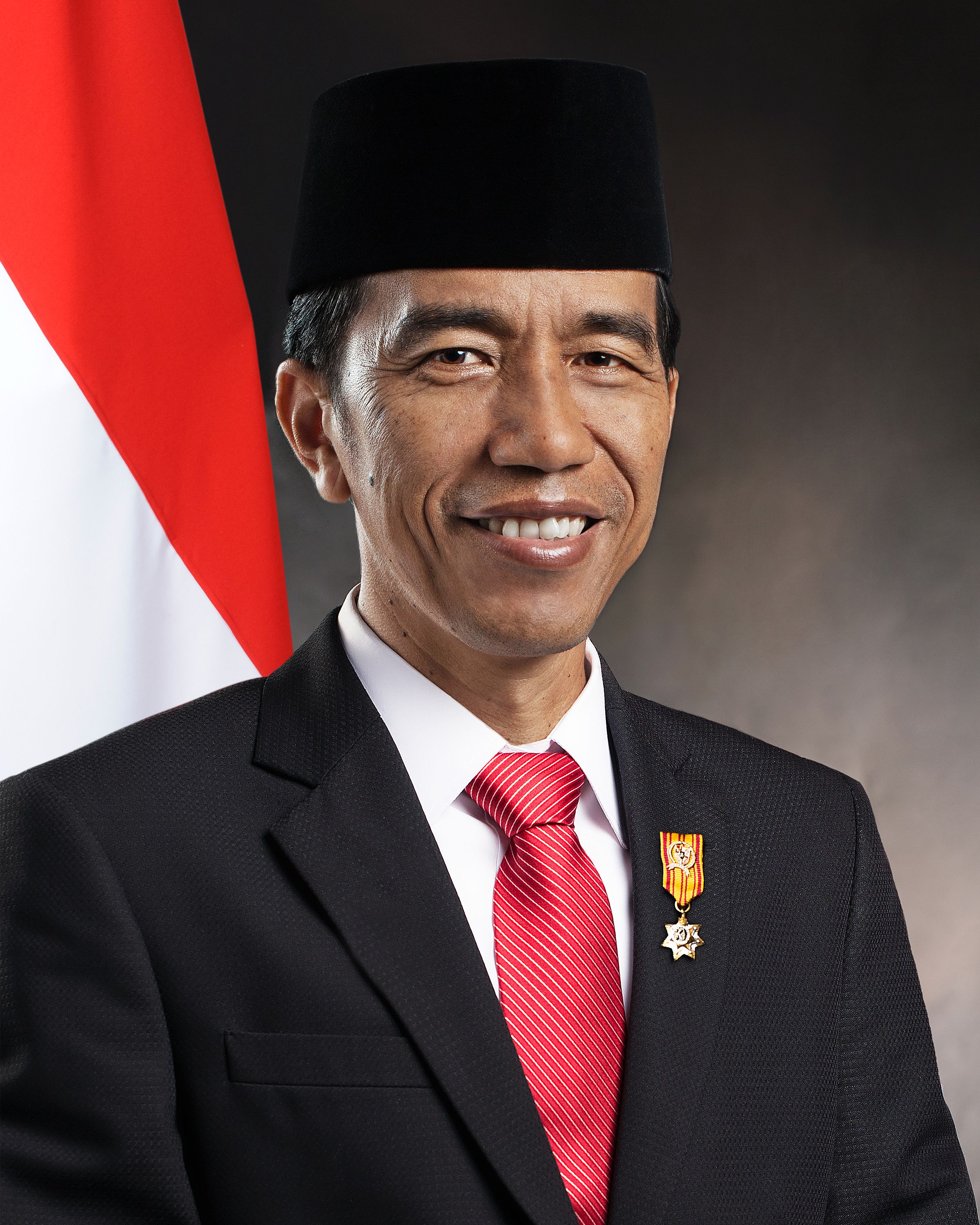 Joko Widodo presidential portrait used in government offices since late 2016 to October 2019Bahasa Indonesia: Foto resmi kepresidenan Joko Widodo yang dipakai di kantor-kantor pemerintah sejak akhir 2016 sampai Oktober 2019